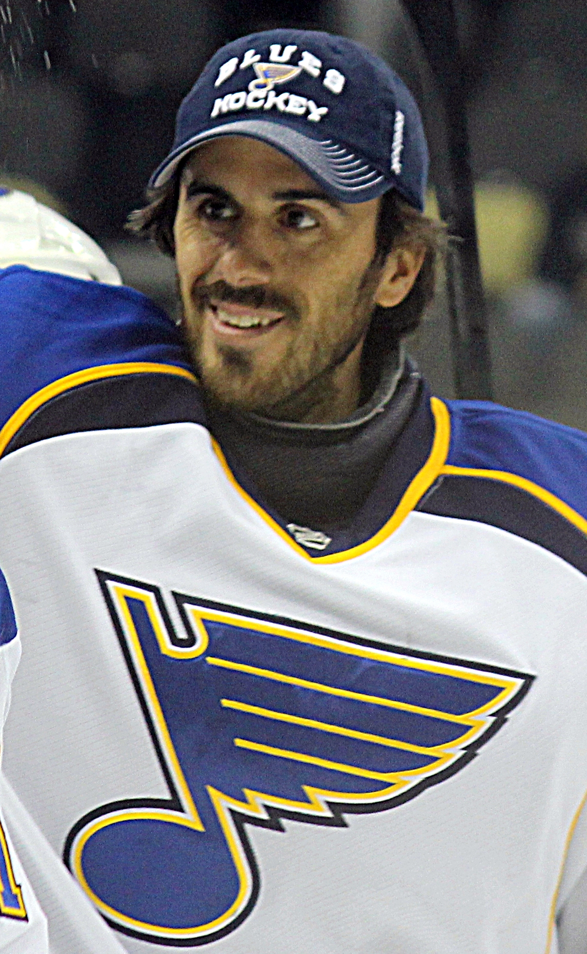 St. Louis Blues goaltender Ryan Miller at Consol Energy Center in Pittsburgh, PA. Miller was the back-up while starter Brian Elliott posted a 1-0 win over the Pittsburgh Penguins on March 23, 2014.